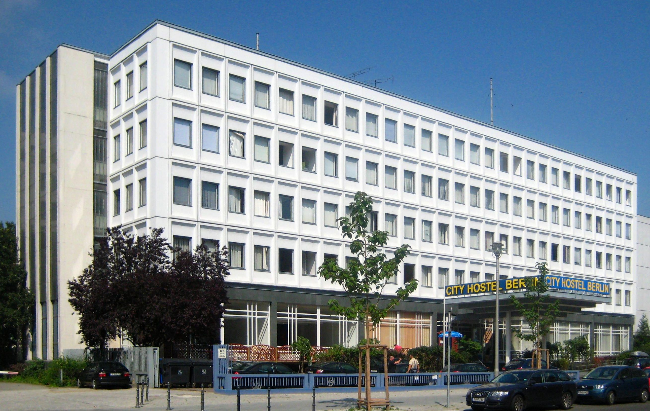 Former consulate building at Glinkastraße No. 5-7 on the compound of the North Korean Embassy in Berlin-Mitte, built 1969 to 1975. The embassy has rented out the building. Amongst others, it is used by the Federal Association of German Psychologists (BDP). In 2008, parts of the building were converted into the "City Hostel Berlin".